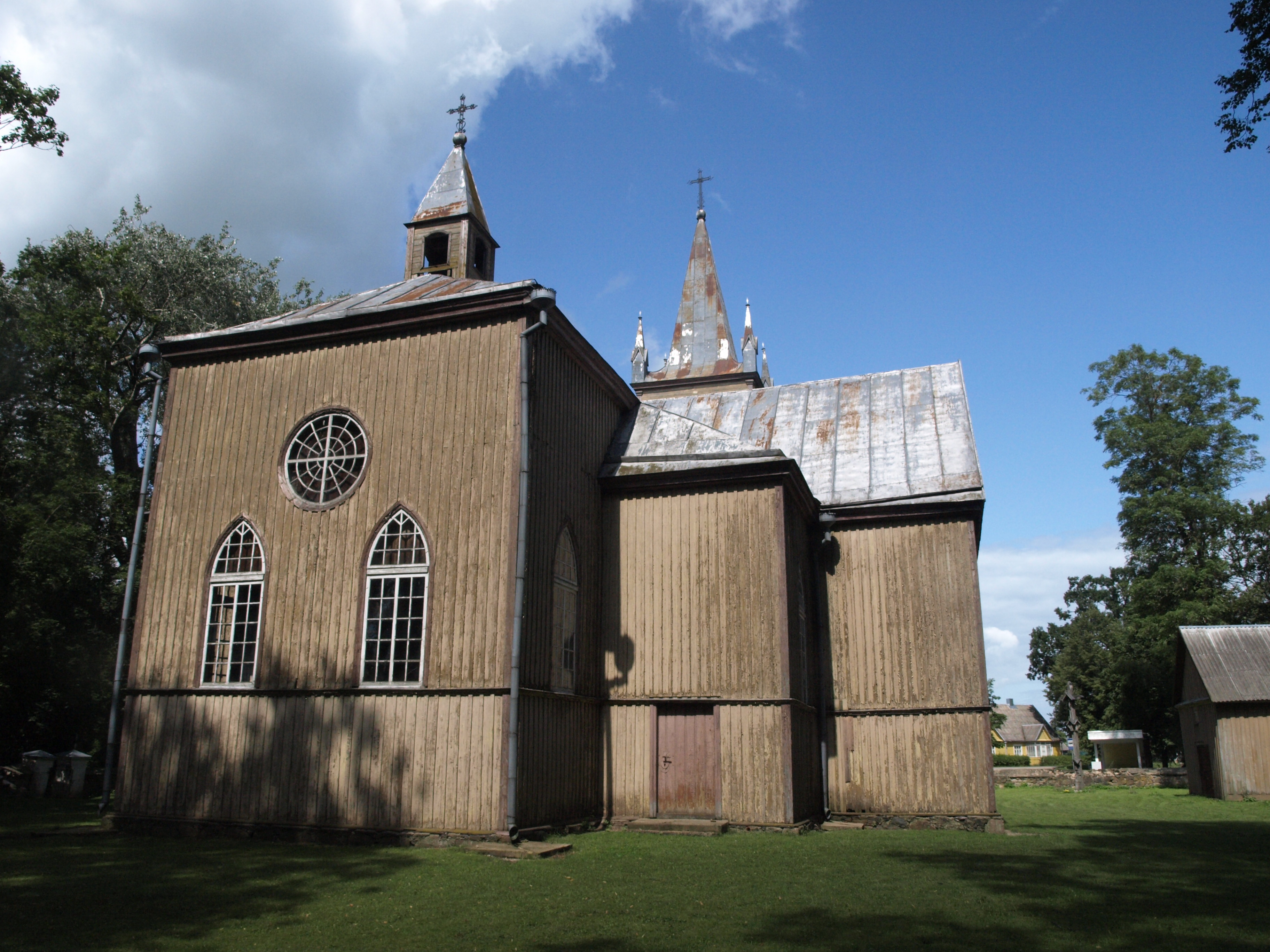 Salos church